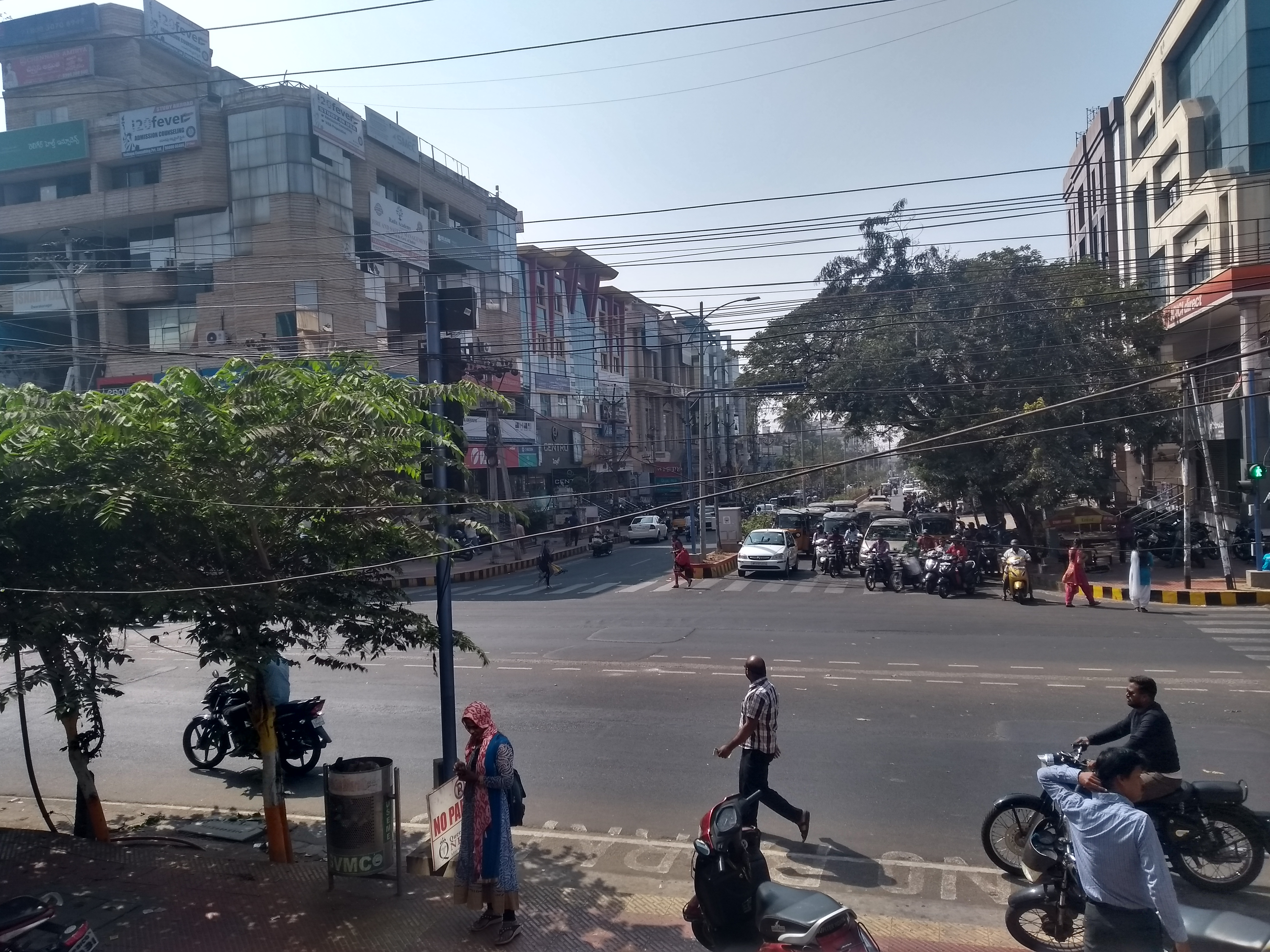 Dwarakanagr road